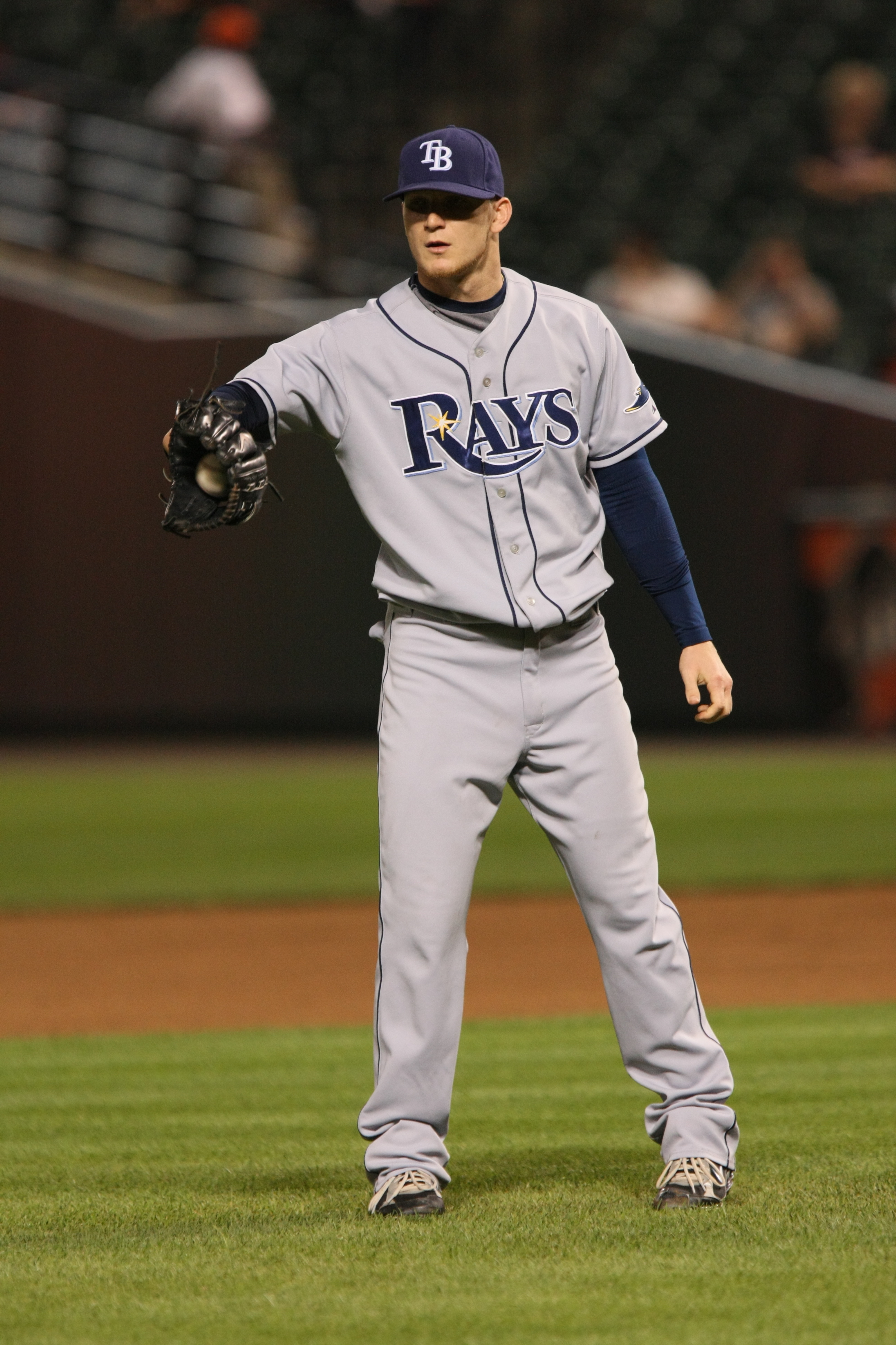 J. P. Howell